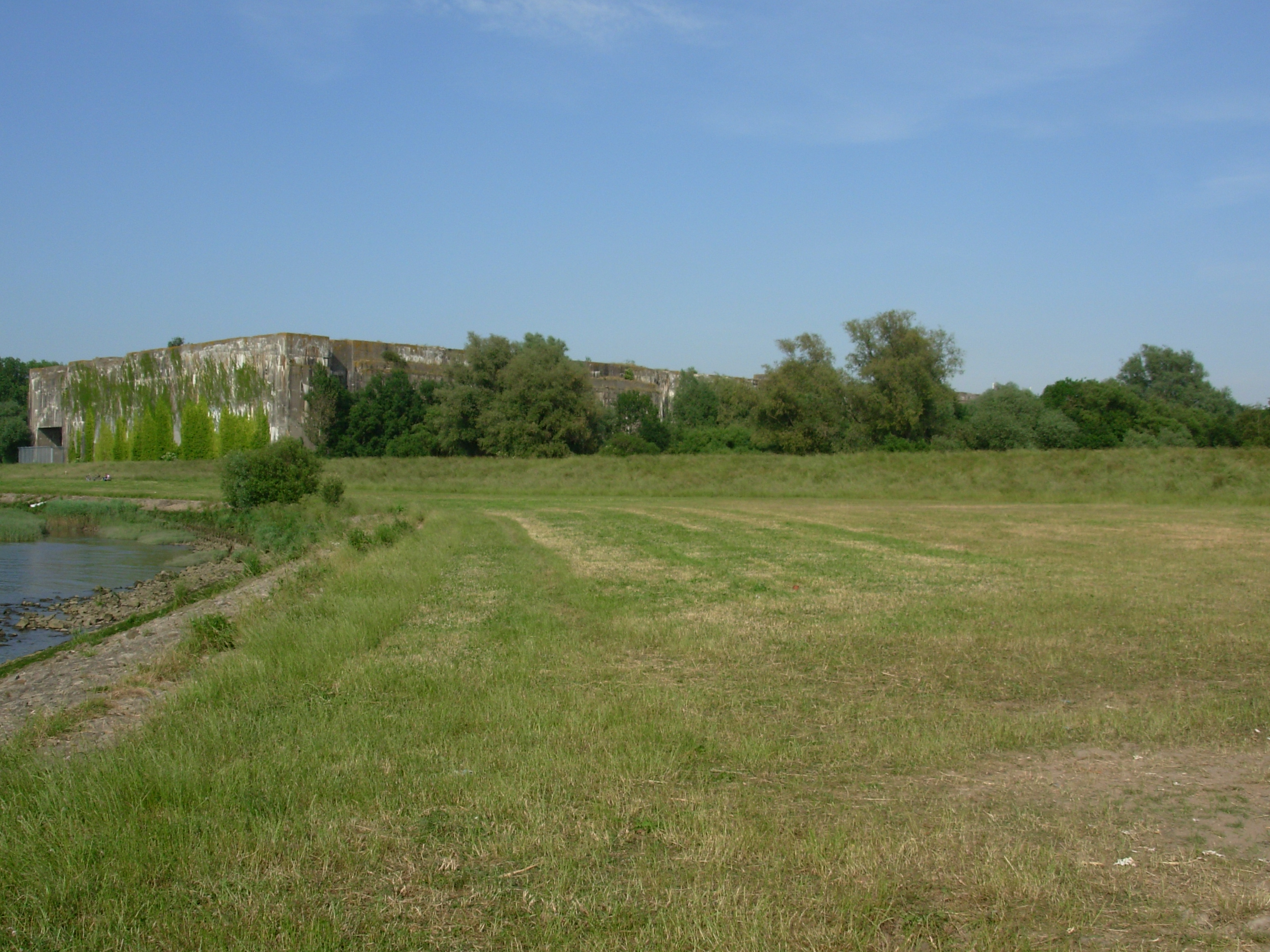 U-Bootbunker Valentin (Bremen) von der Weser aus gesehen.